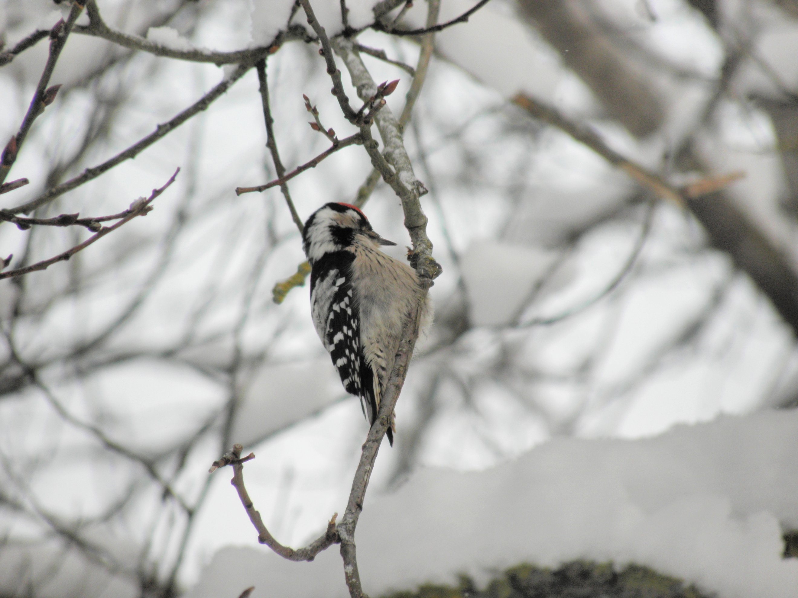 Lesser Spotted Woodpecker (Picoides minor syn. Dendrocopos minor)